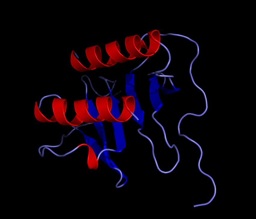 This is a structure of IL-1a published in the Protein Data Bank (PDB: 2ILA) and rendered using Pymol.